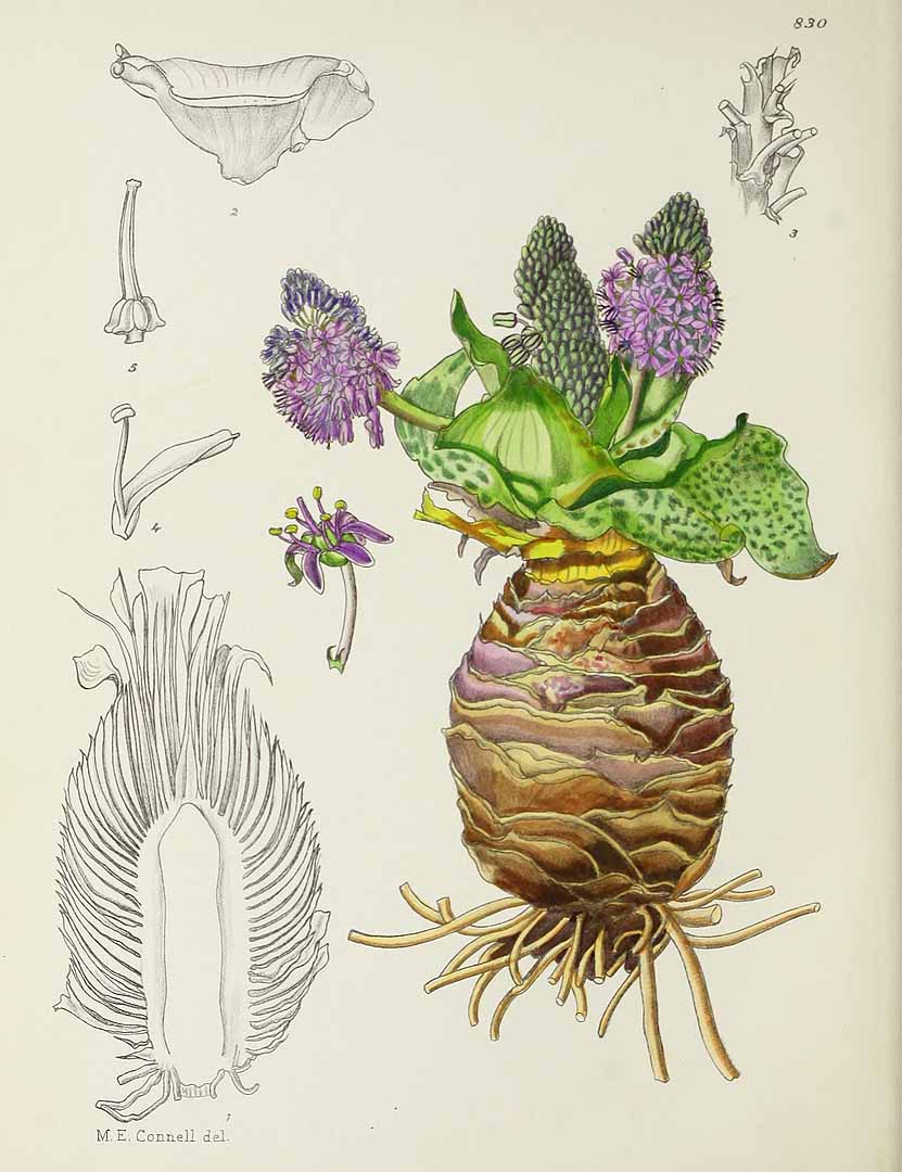 Ledebouria ovatifolia (Baker) Jessop [as Scilla ovatifolia Baker] - Pole Evans, I.B., Flowering plants of (South) Africa, vol. 21: t. 830 (1941) [M.E. Connell]